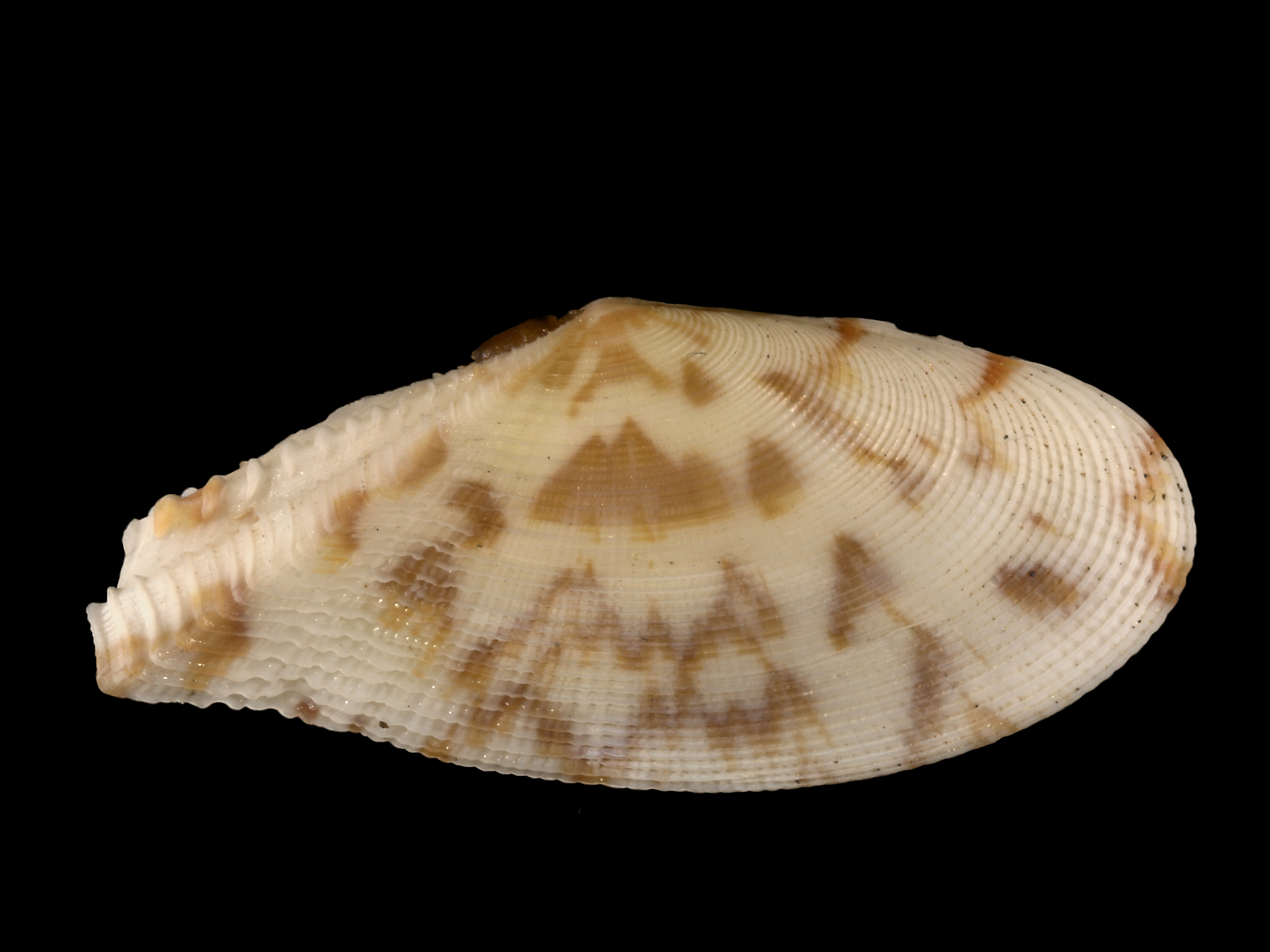 Speckled Tellin from Coulibistrie, on the Caribian coast of Dominica (W.I.).Studio shot of an empty shell collected at a dive (see coordinates).